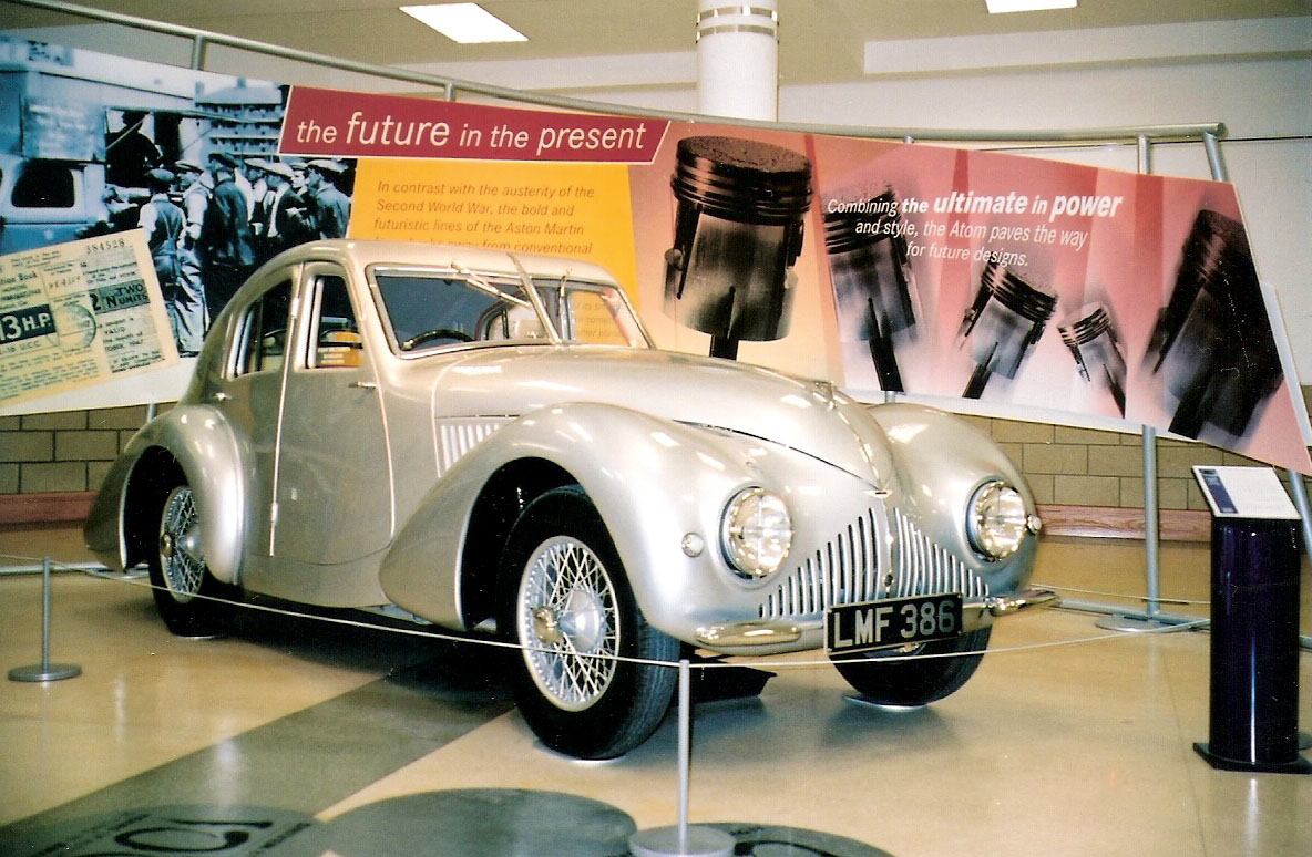 Aston Martin Atom taken in 2003 at the Heritage Motor Centre in Gaydon. Unfortunately poor quality due to cheap film camera then transfer to CD.Aston Martin Atom